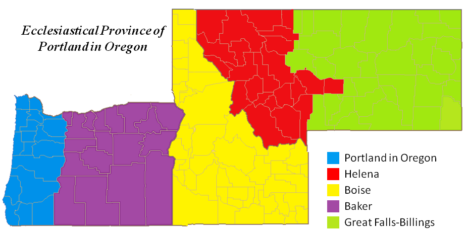 The Ecclesiastical Province of Portland encompasses the states of Oregon, Idaho and Montana, USA.